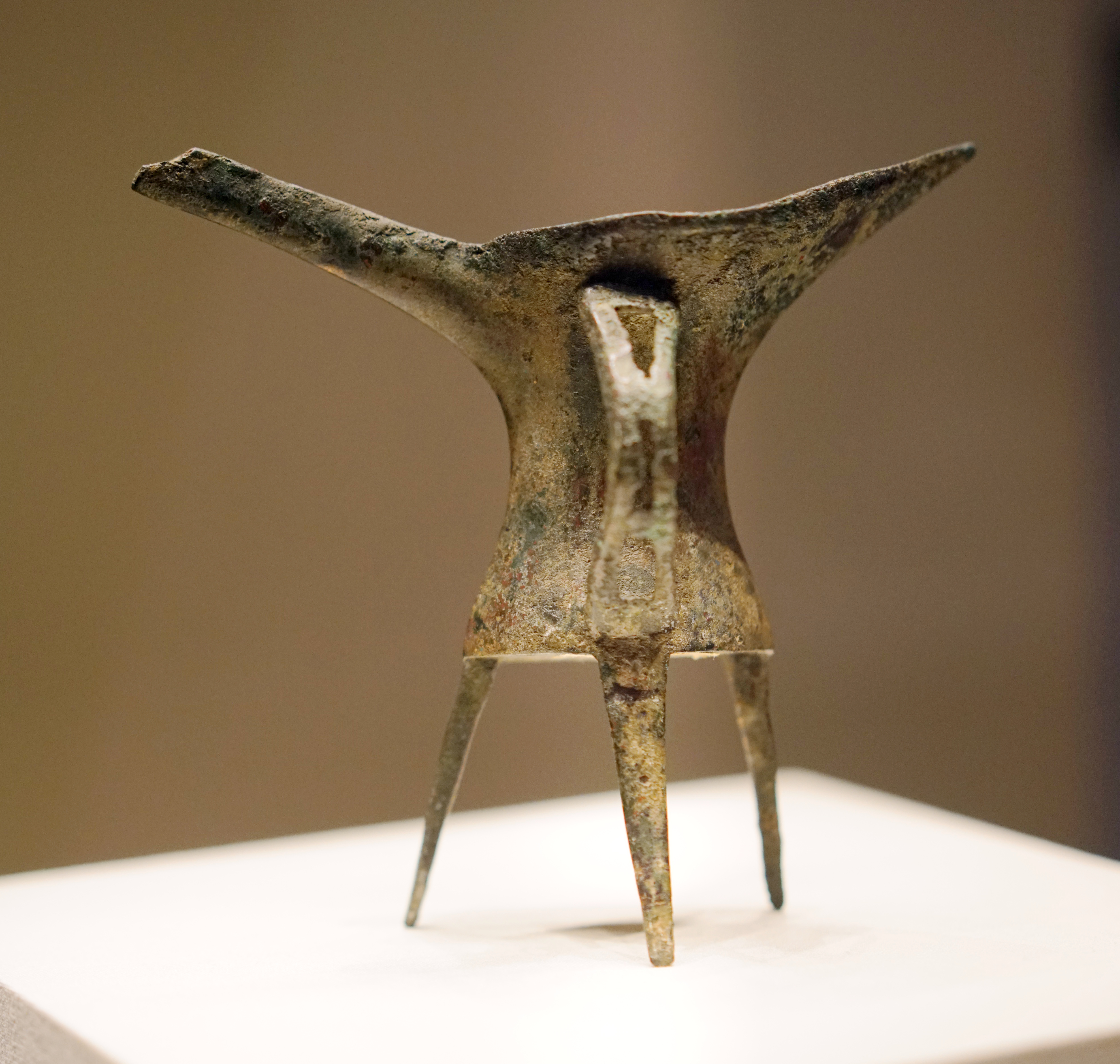 Bronze Jue (wine vessel), Erlitou Culture, Uneaethed at Erlitou, Yanshi, Henan Province, 1984.